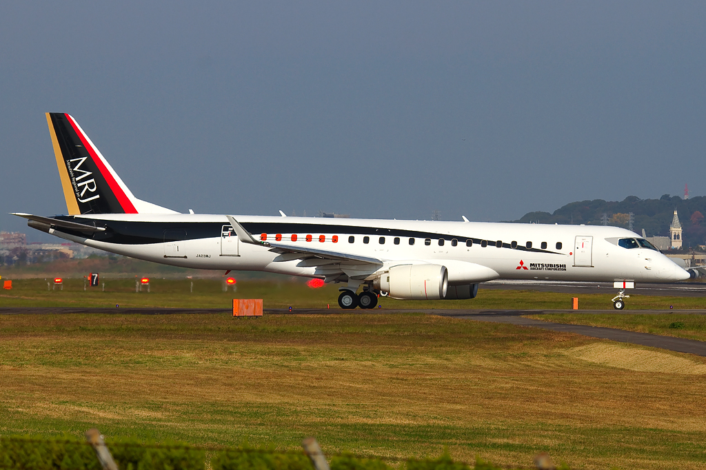 First flight of JA23MJ